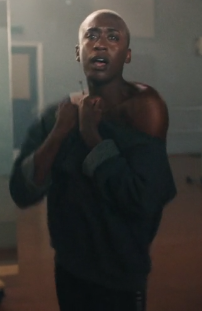 This is a screenshot of singer Vincint from the music video "Someday."